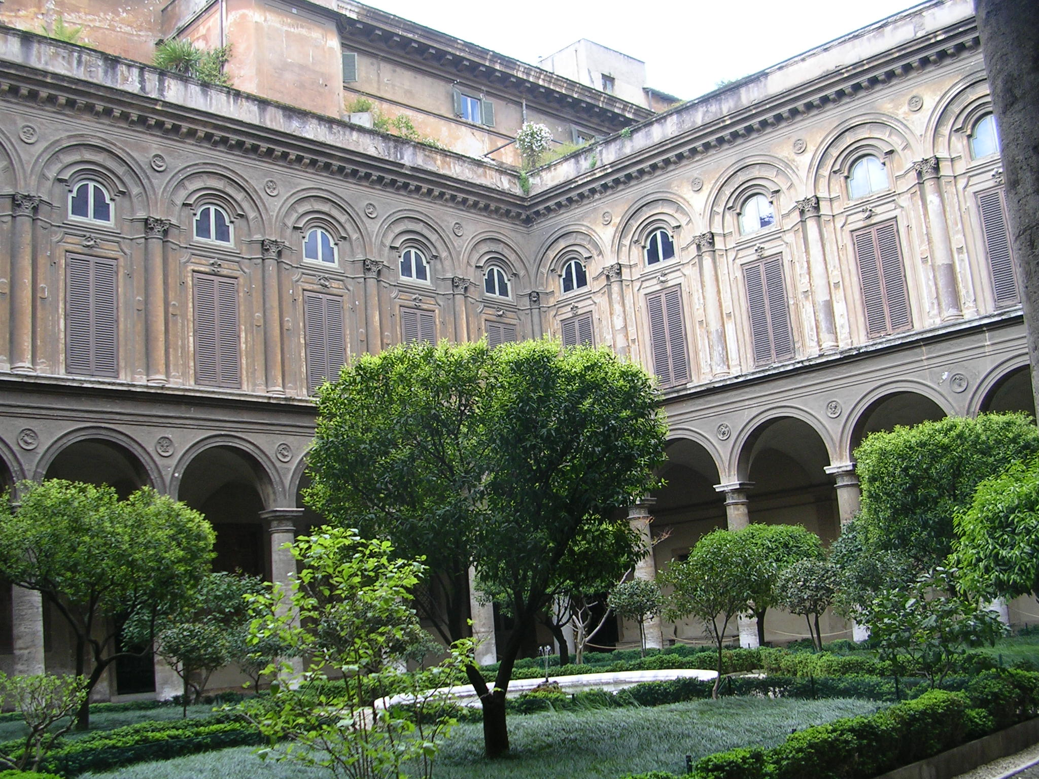 Courtyard of the Palazzo Doria Pamphilj art gallery in Rome, Italy. Photographed by User:Giano, May 2010.